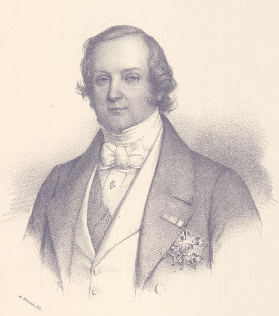 Portrait of Charles Marie, comte Duchâtel, bust slightly turned to left. looking to front, with side-parted hair, high-collared shirt with cravat, waistcoat, and jacket with badge of the Legion of Honour at breast Lithograph on chine collé